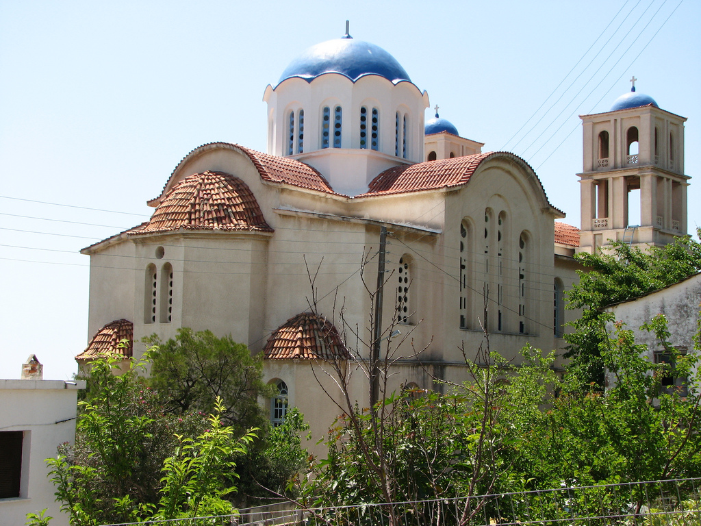 Agios Kirykos (Greek: Άγιος Κήρυκος) is a municipality on the island of Icaria, Samos Prefecture, Greece